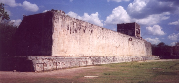 Ball court in Chichén Itzá, larger image of my photo facing east inside of the ballcourt taken May 1997